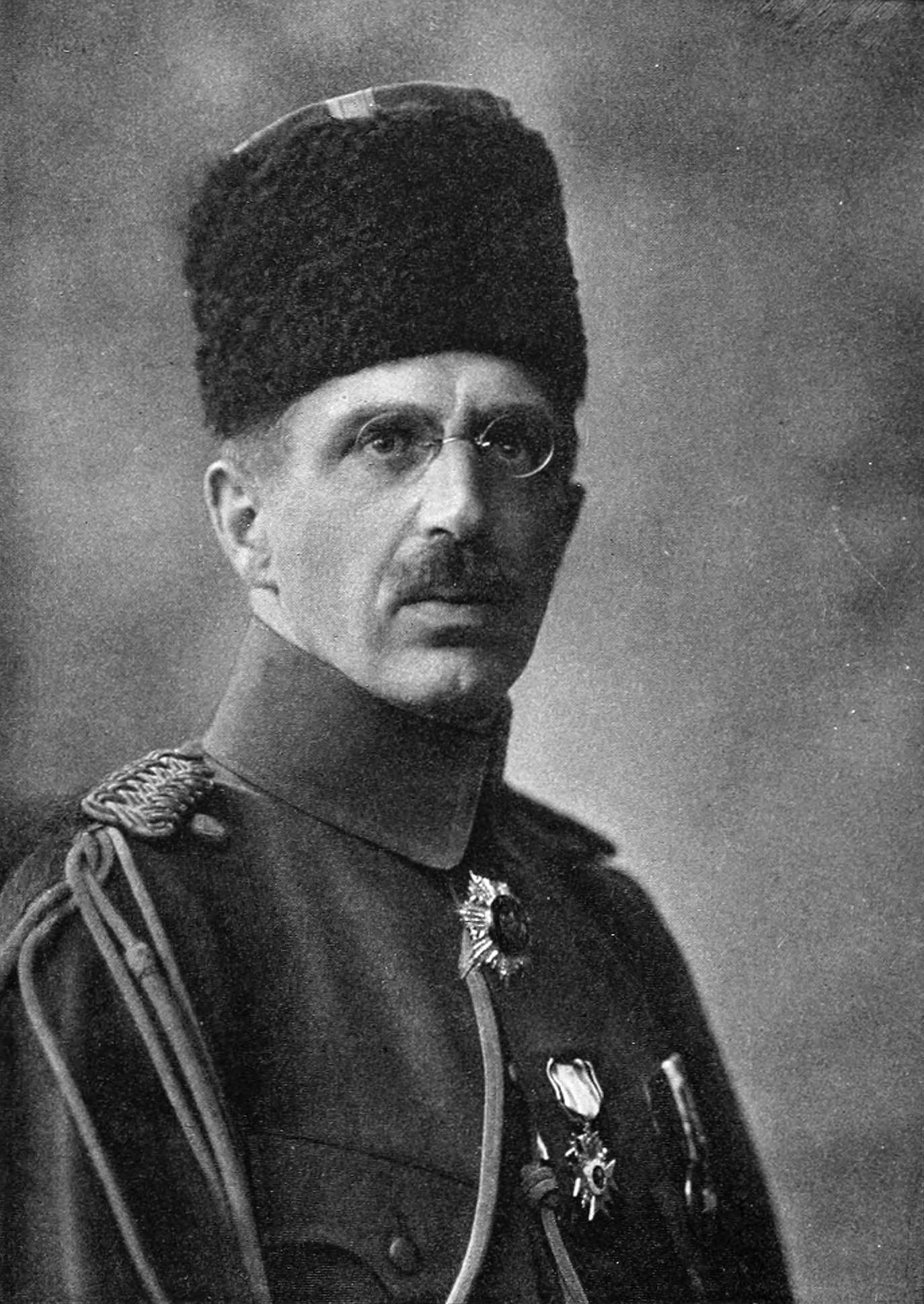 Carl Franz Endres (1915)